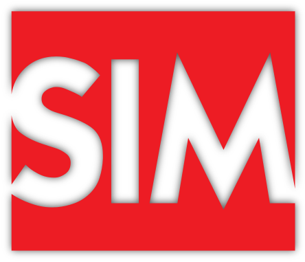 Logo of the Sim series.